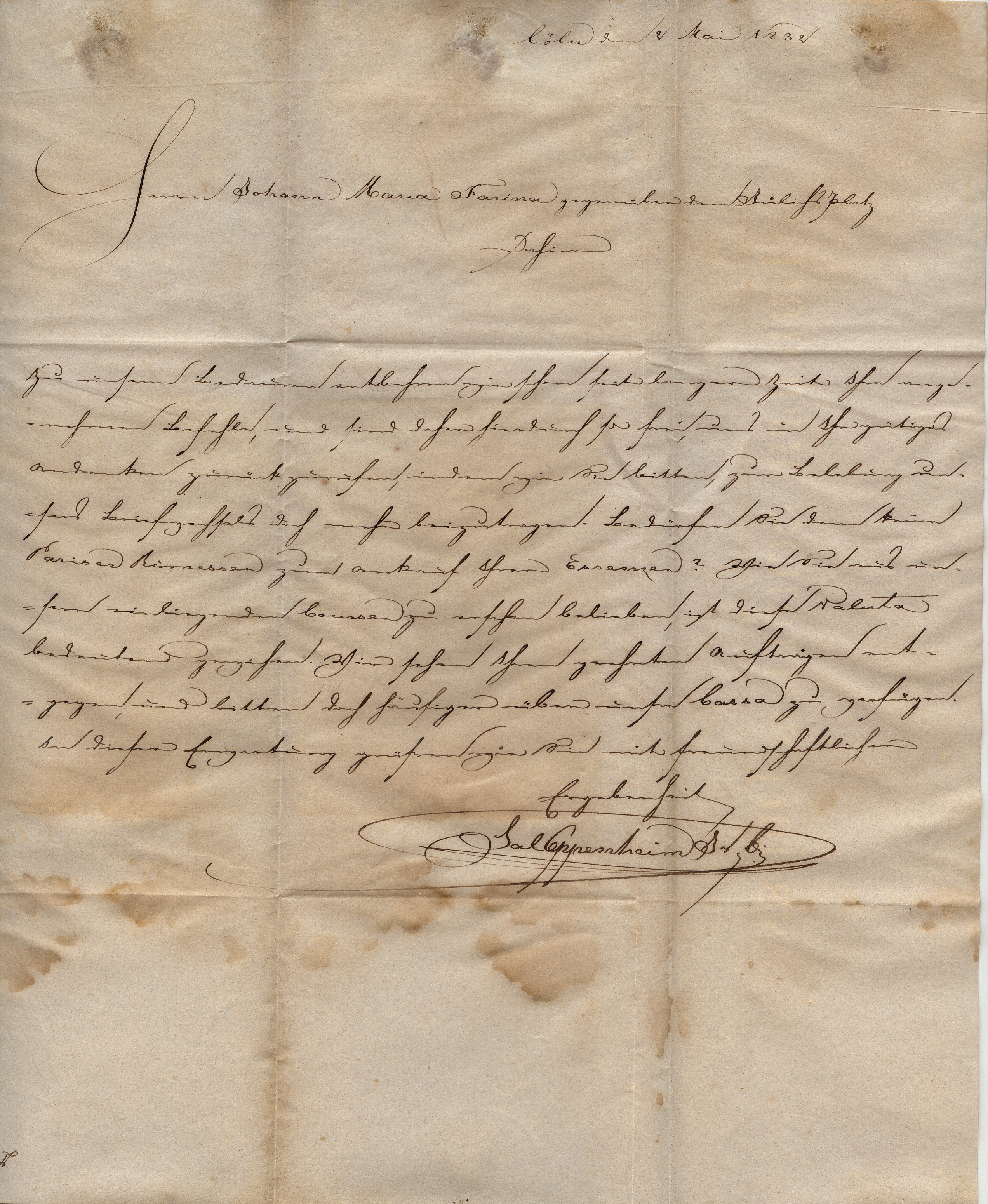 Letter Sal. Oppenheim to Johann Maria Farina in Cologne